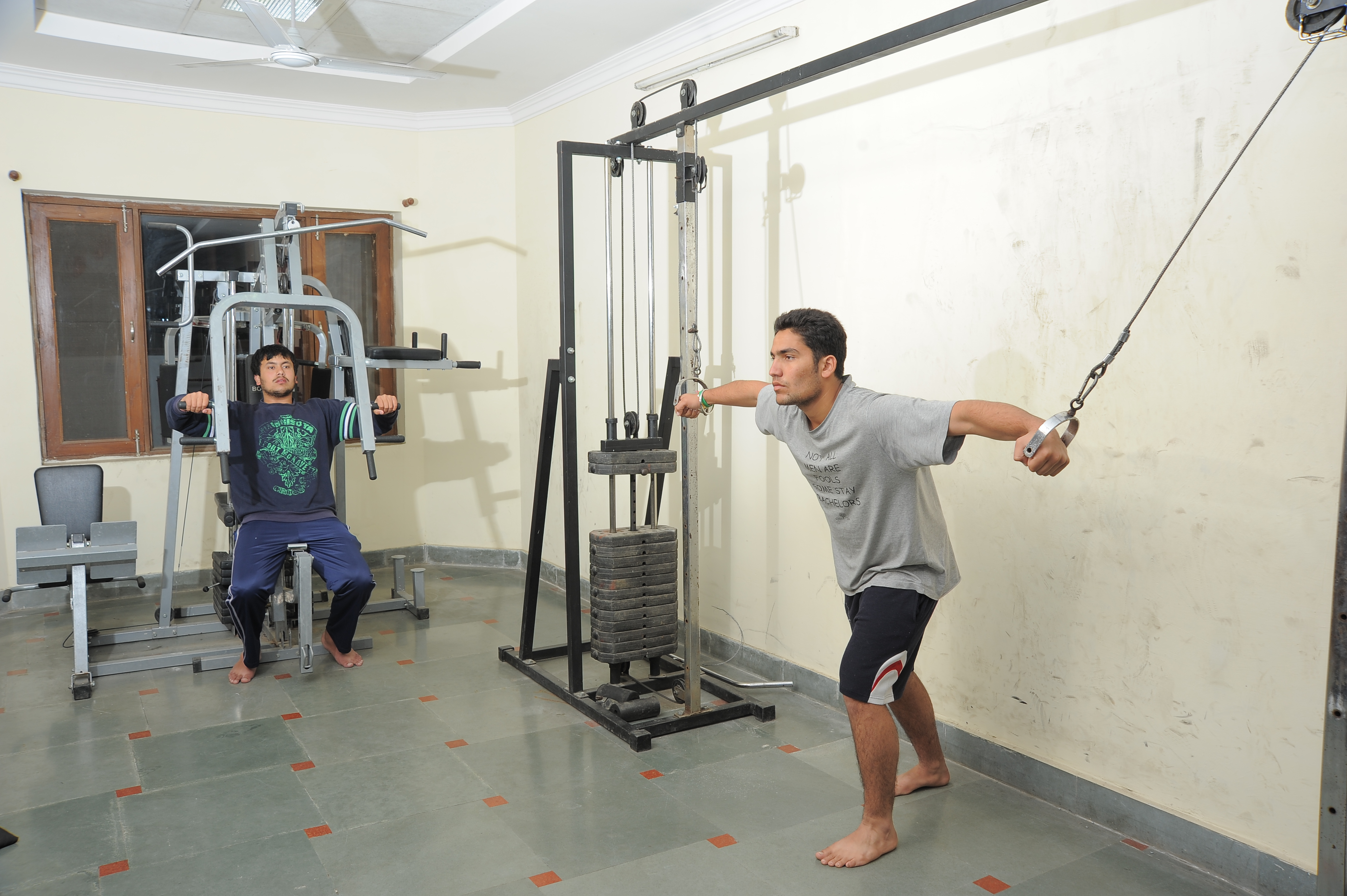 Gym of one of the boys hostel of Graphic Era University.